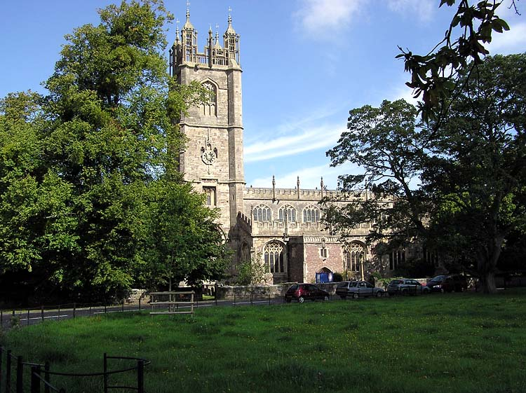 Saint Mary’s Church, Thornbury, near Bristol, England. Taken by Adrian Pingstone in September 2004 and released to the public domain.